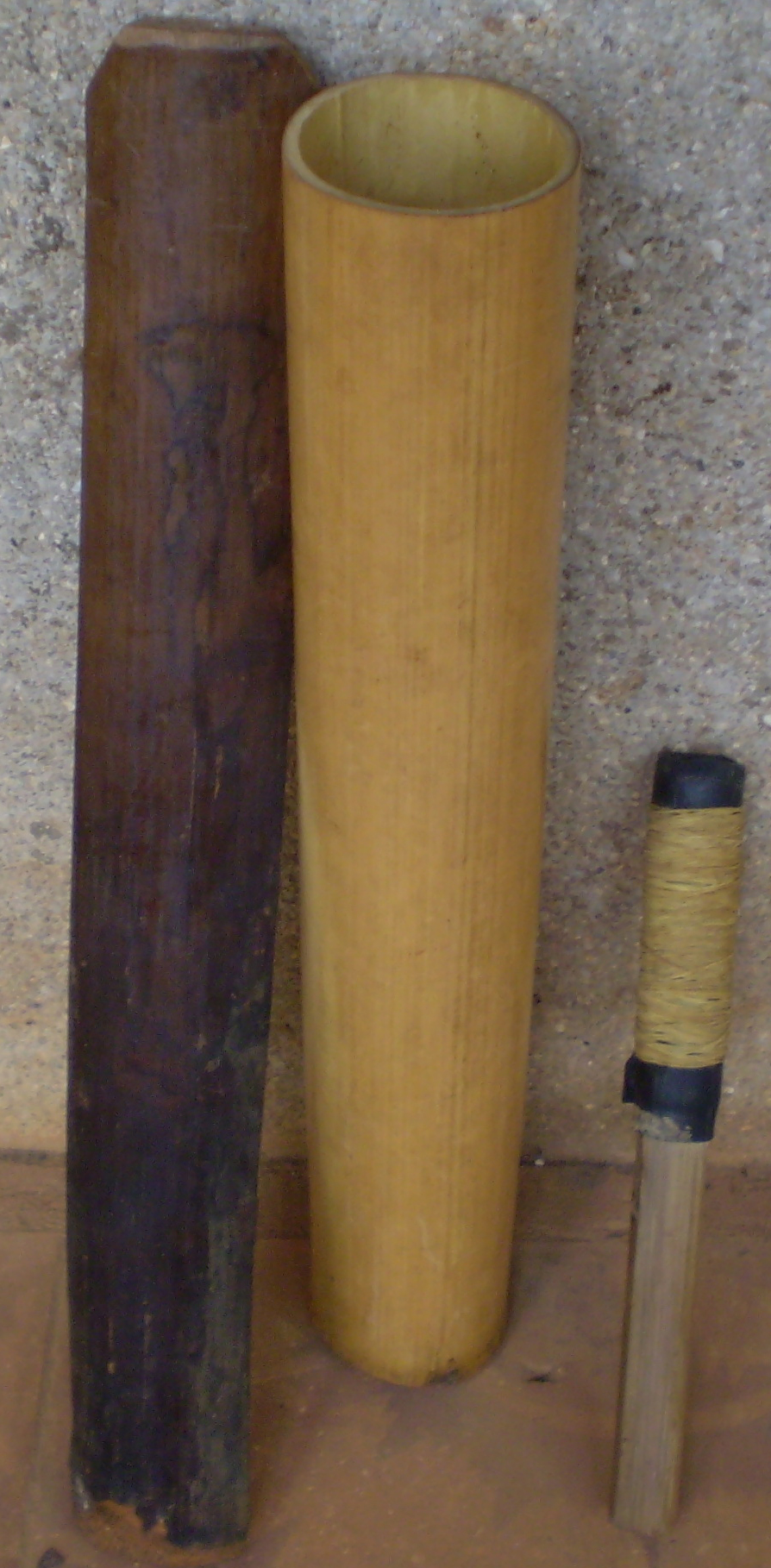 Musical instrument Chinhcram of Ede peopleTiếng Việt: Nhạc cụ chiêng tre của người dân tộc Tây Nguyên